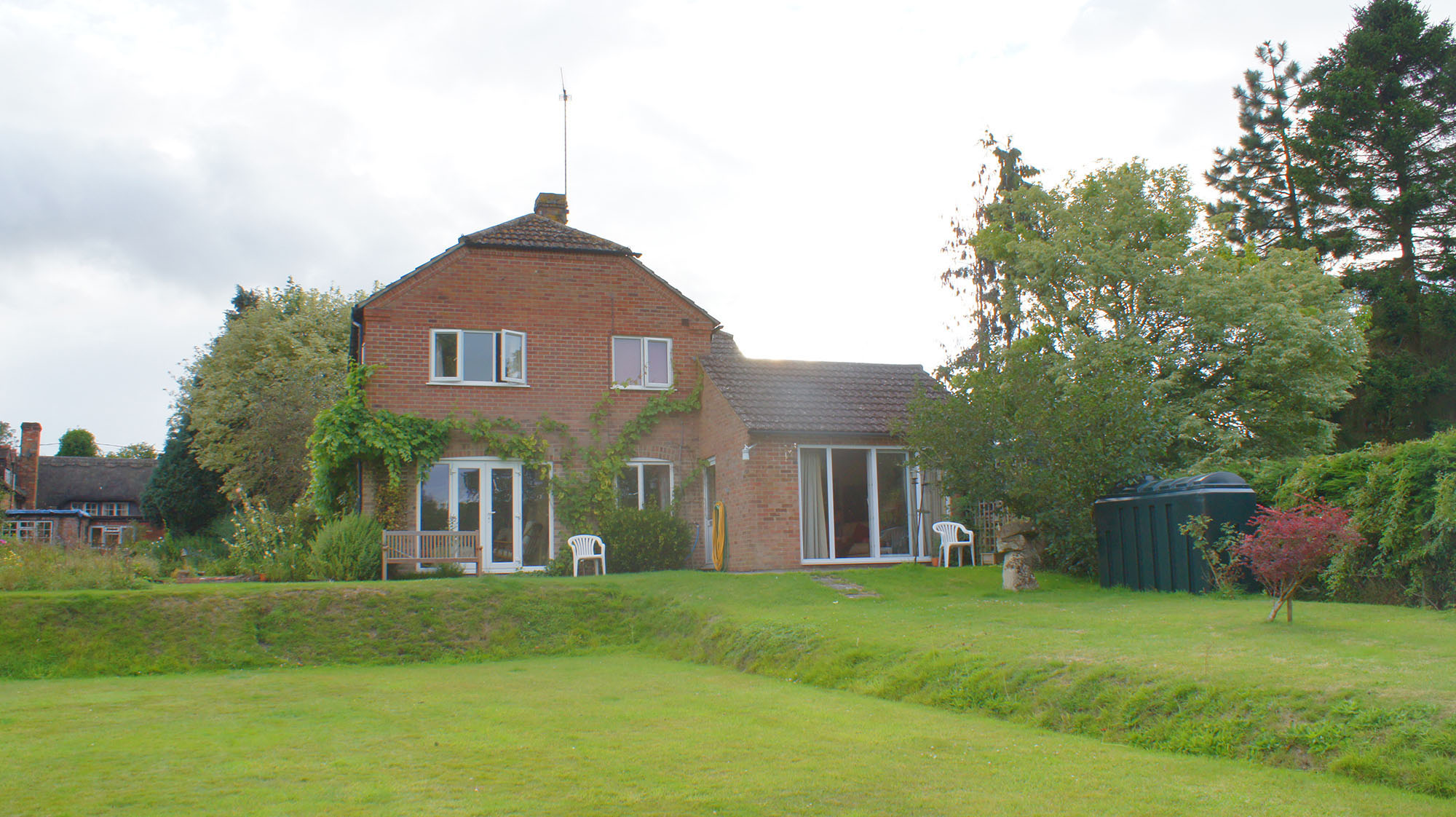 Picture of The Royal Oak's B&B Annexe